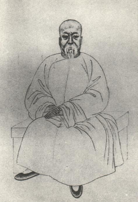 LI Shanlan, scholar and mathematician of the Qing Dynasty.